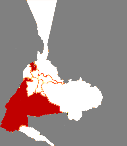 Location of Urumqi County in Urumqi City, China